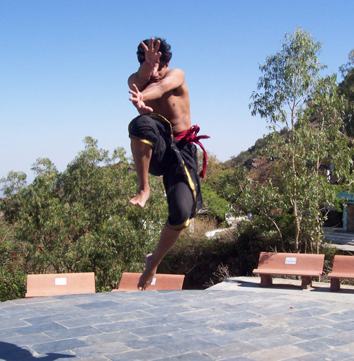 Praveen gurukkal's display of kalari postures for Kalarickal Ayurveda display.